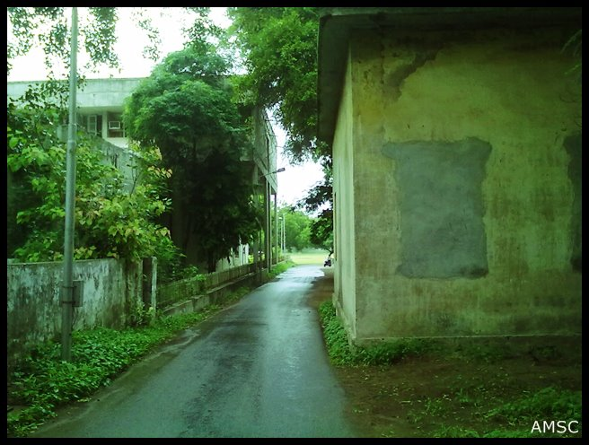 This is a photo of passage which is near iconic red chimney and annex building. Looks very beautiful in rainy season.